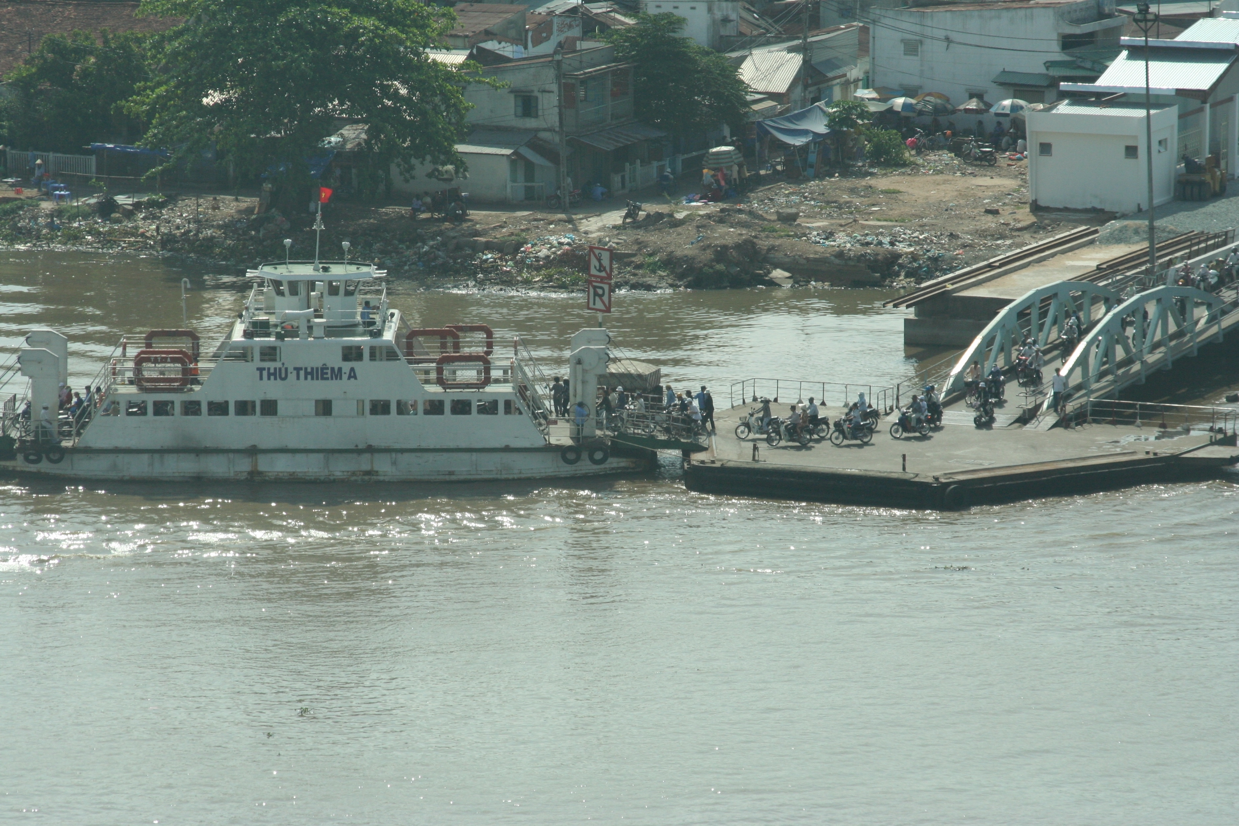 Ferry loading motorbikes Ho Chi Minh City, Vietnam taken Jun 2005. Photographer Roderick Divilbiss